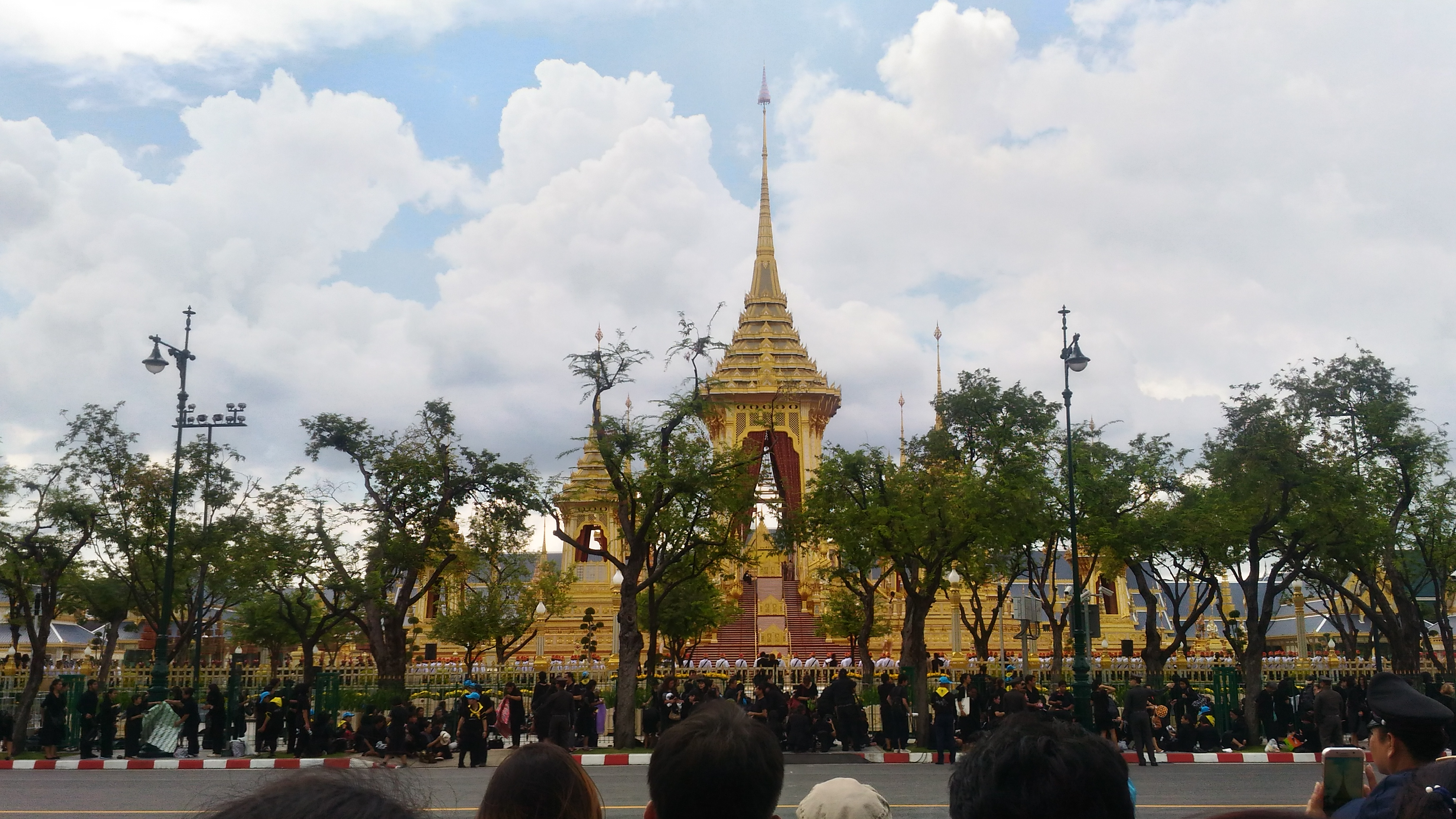 Royal crematorium of Bhumibol Adulyadej, as seen on October 21, 2017.